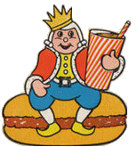 Representation of the Burger King character from 1955-1968. This image was trademarked (US Trademark #72306536) but said trademark was declared dead by the US Patent and Trademark Office, and thus is invalid.